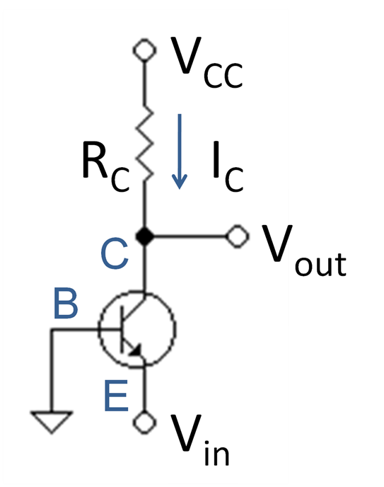 BIpolar current follower with resistor load